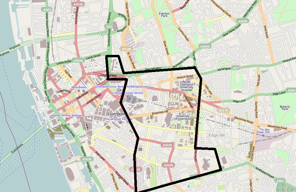 Map of the Knowledge Quarter, Liverpool, England